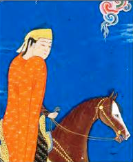 Painting of Tahmina in The Shahnama of Shah Tahmasp